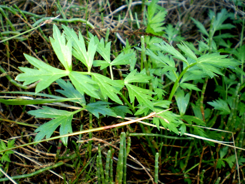 Apium prostratum var. filiforme - Mangrove Sea Celery